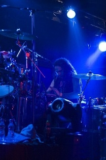 Ill nino in Prague